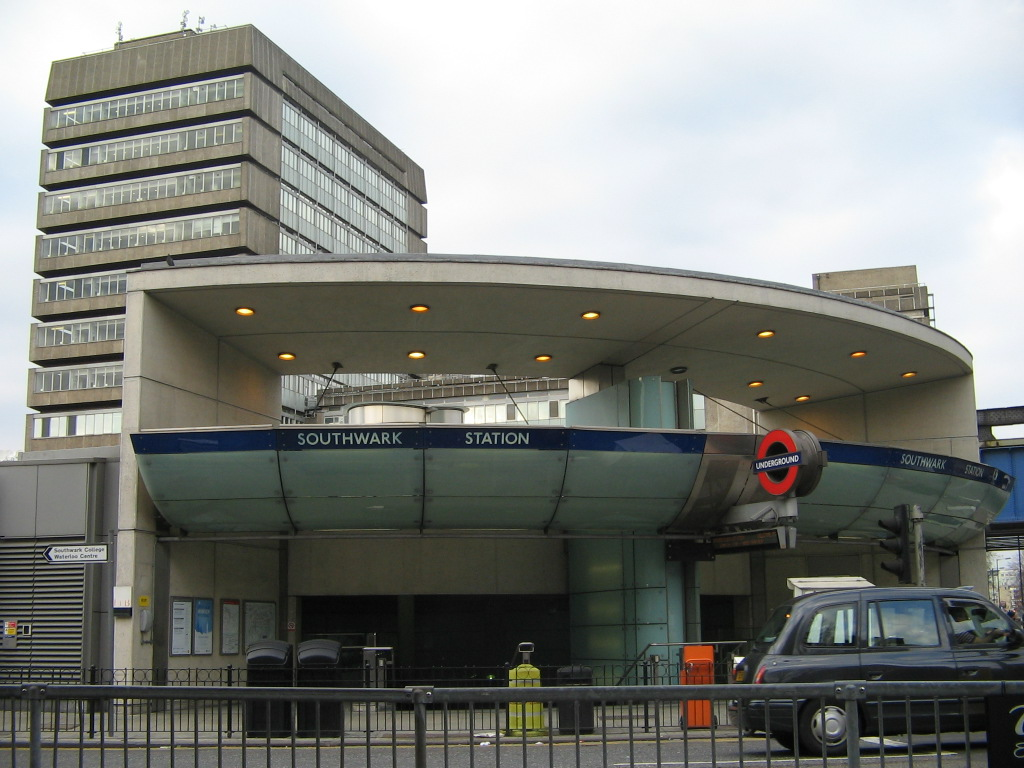 Southwark Station, photo taken by me (Will Fox) in January 2006. Absolutely free, released into the public domain, so no need to delete it thanks.